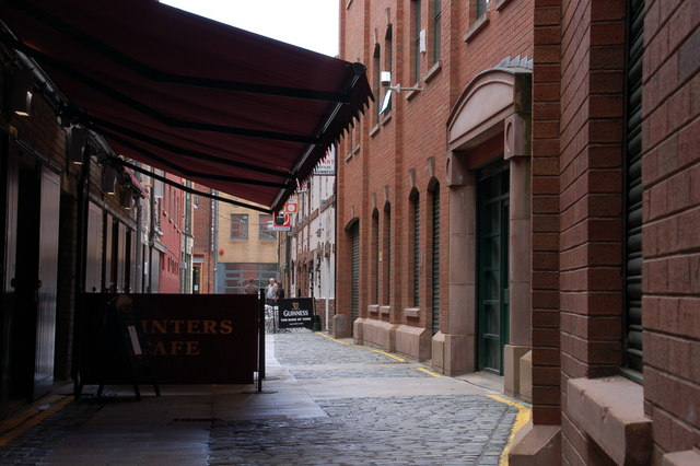 Commercial Court, Belfast